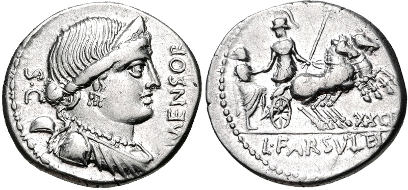 L. Farsuleius Mensor 76 BC. AR Denarius (18.5mm, 3.86 g, 6h). Rome mint. Diademed and draped bust of Libertas right; pileus to left / Roma holding spear and reins in biga, assisting togate figure into chariot; XXCII below horses. Crawford 392/1b; Sydenham 789; Farsuleia 2. VF, bright surfaces.